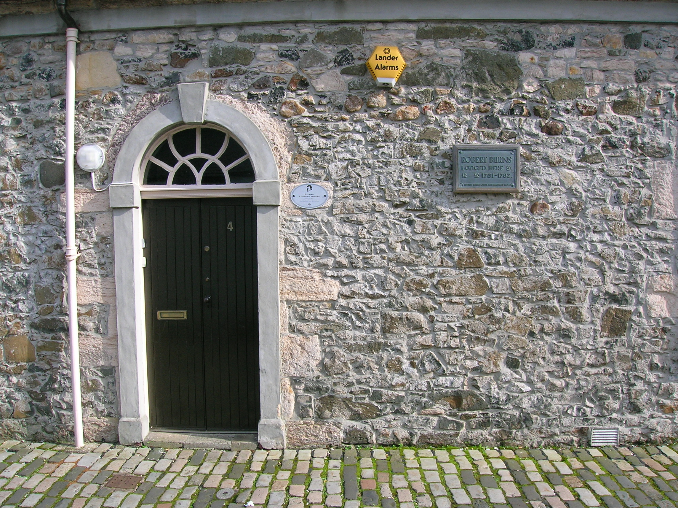 Robert Burns's lodgings in the Glasgow Vennel, Irvine, North Ayrshire, Scotland